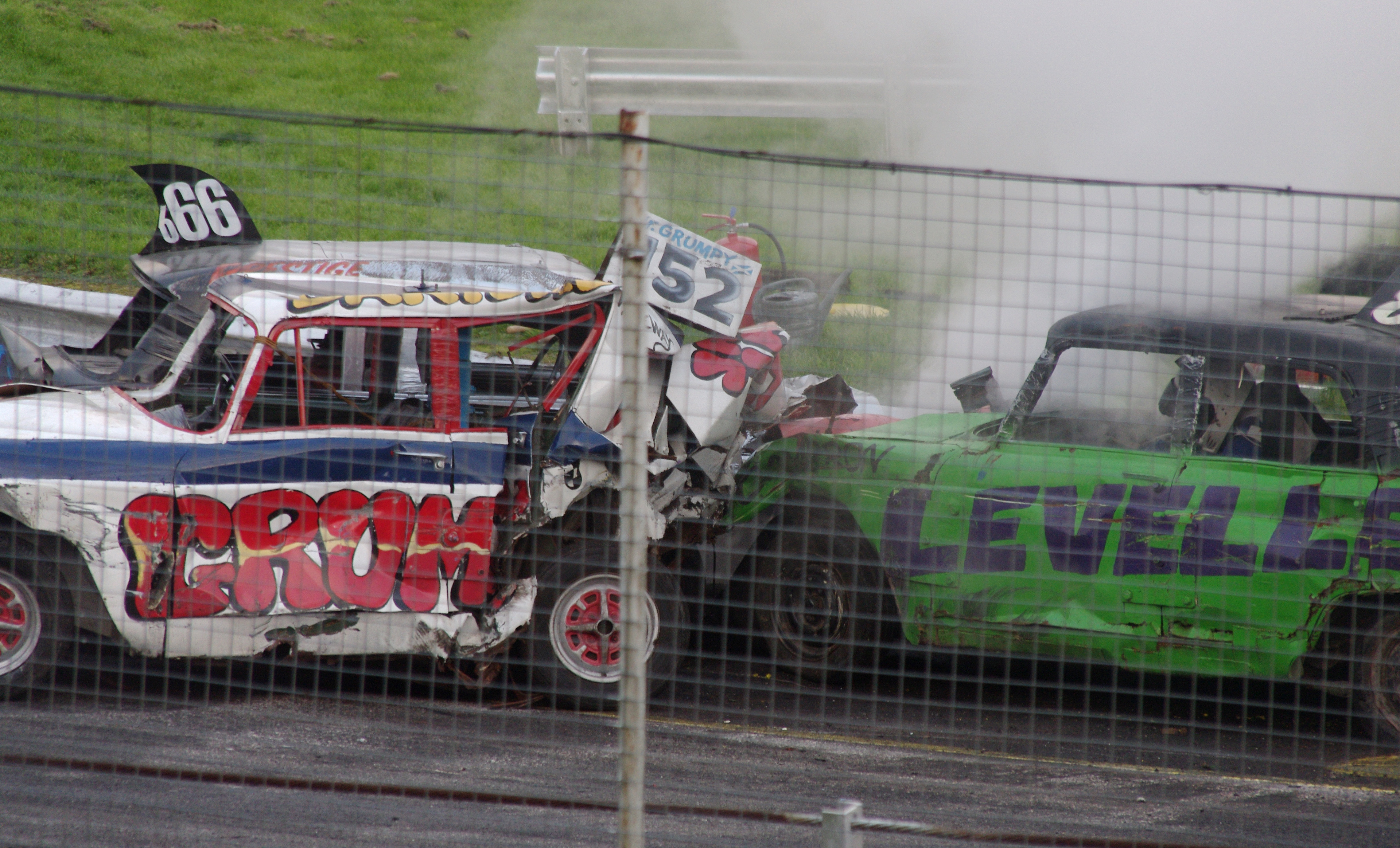 Banger racing at Hednesford Hills Raceway. Crashes.